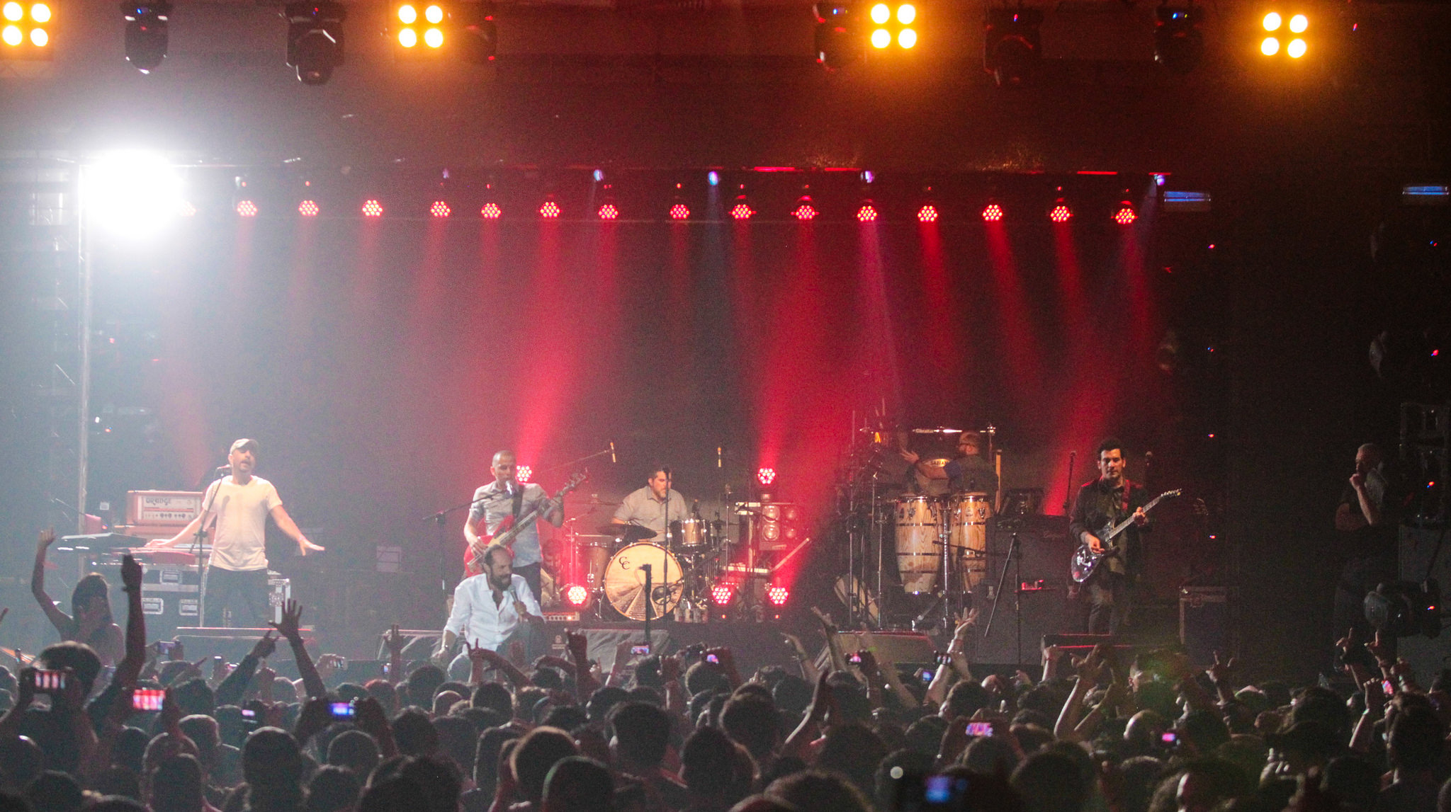 Bohemia Suburbana live 2015 - Imaginaria Sonora